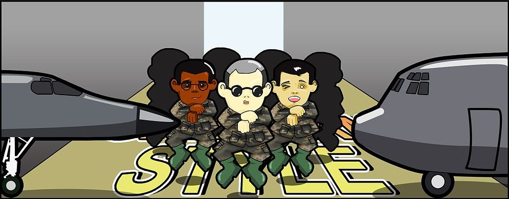 Gangnam Style as parodied by Dyess Komics, the official comic strip of Dyess Air Force Base created by Airman 1st Class Damon Kasberg